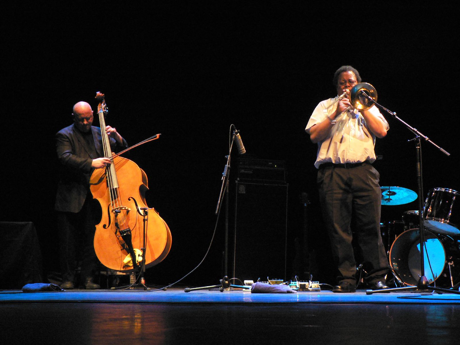 Gavin Bryars (double bass) and George Lewis (trombone)